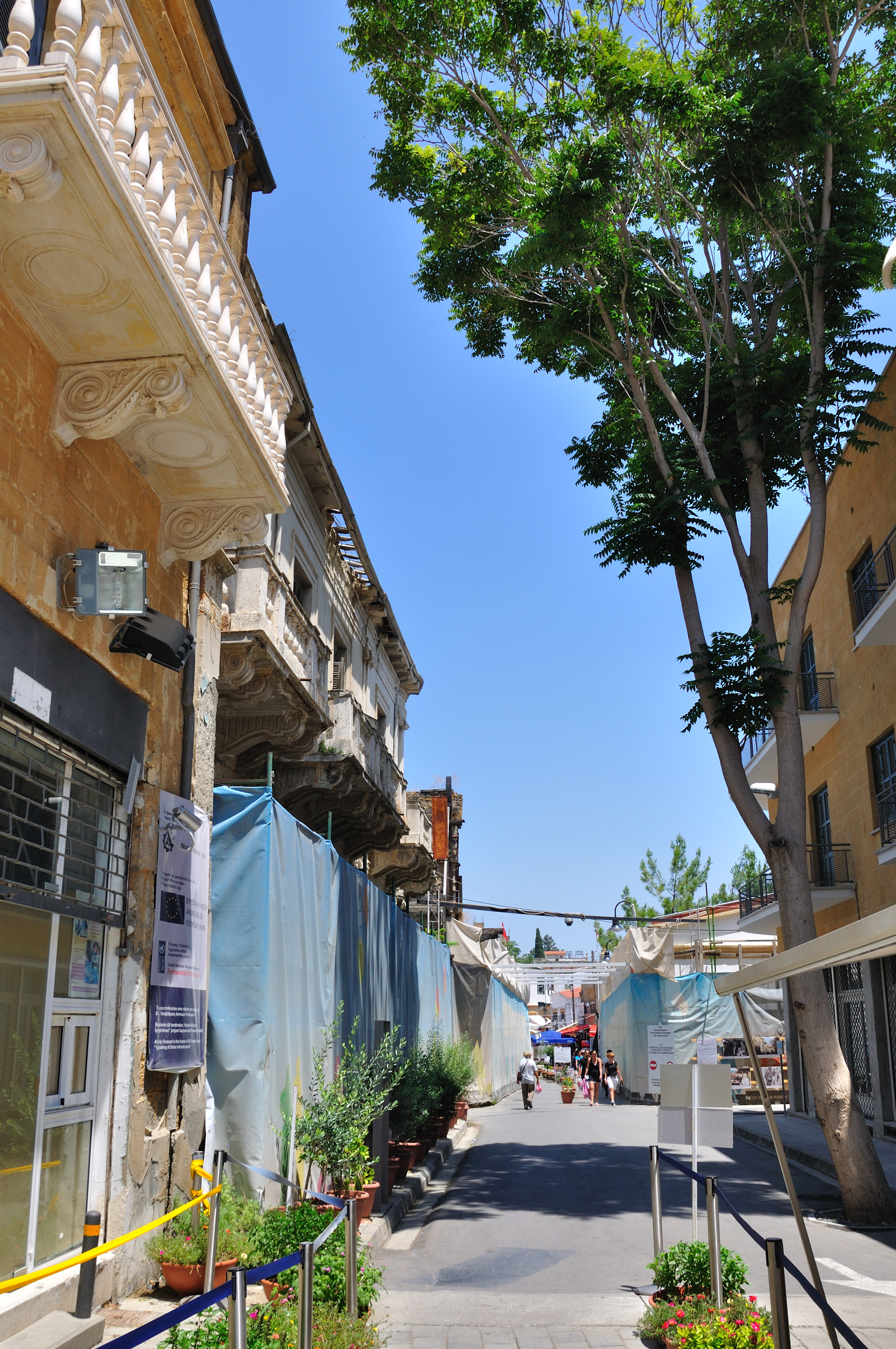 Cyprus, Ledra Street